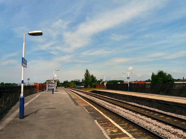 Hyde Central Station Platform 1 for trains to Manchester.